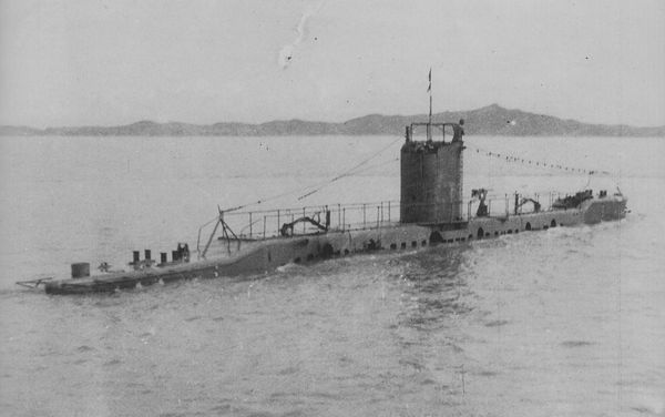 Imperial Japanese Army Type 3 submergence transport vehicle-I Yu 1001-class (Yu 1001, Yu 1002, Yu 1003 or Yu 1005)